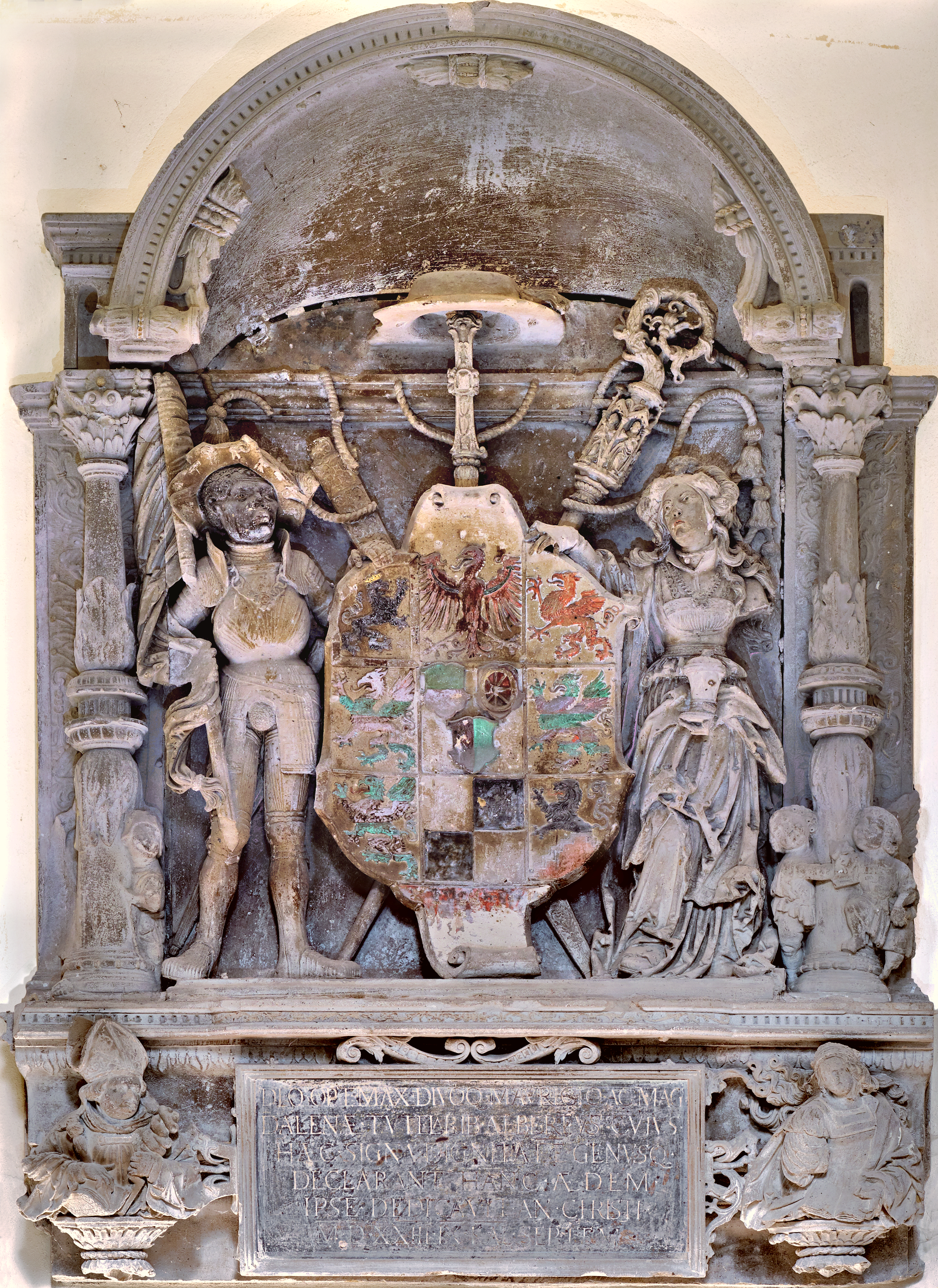 Great inscription by Peter Schro in the cathedral of Halle (1523)